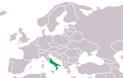 Distribution of Triturus italicus, based on Nöllert/Nöllert: "Die Amphibien Europas"